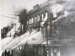 Ballantynes' on Fire: Presented as evidence to Royal Commission